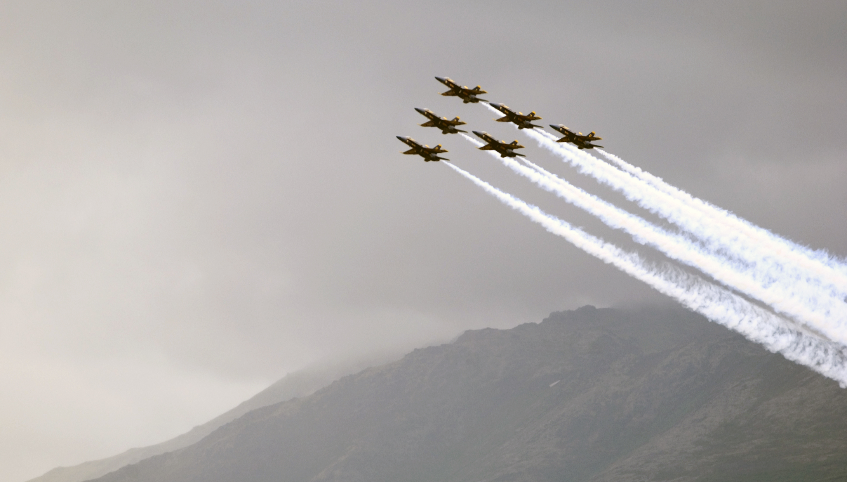 Elmendorf Air Force Base, Alaska (Aug. 12, 2006) - Six Blue Angel F-18 Super Hornets, fly in delta formation into the rainy mists surrounding Elmendorf AFB during Arctic Thunder. The featured performers for Arctic Thunder 2006 were the Navy's premier demonstration team, the Blue Angels and the Army's Golden Knights parachute demonstration team. U.S. Air Force photo by Senior Airman Garrett Hothan (RELEASED)